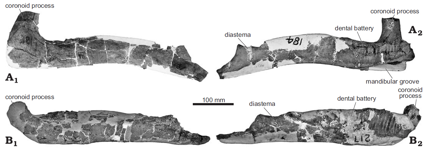 The hadrosaurid dinosaur Wulagasaurus dongi gen. et sp. nov. from the Upper Cretaceous Yuliangze Formation at the Wulaga quarry, China. A. Holotype GMH W184, right dentary in lateral (A1) and medial (A2) views. B. GMH W217, right dentary in lateral (B1) and medial (B2) views.